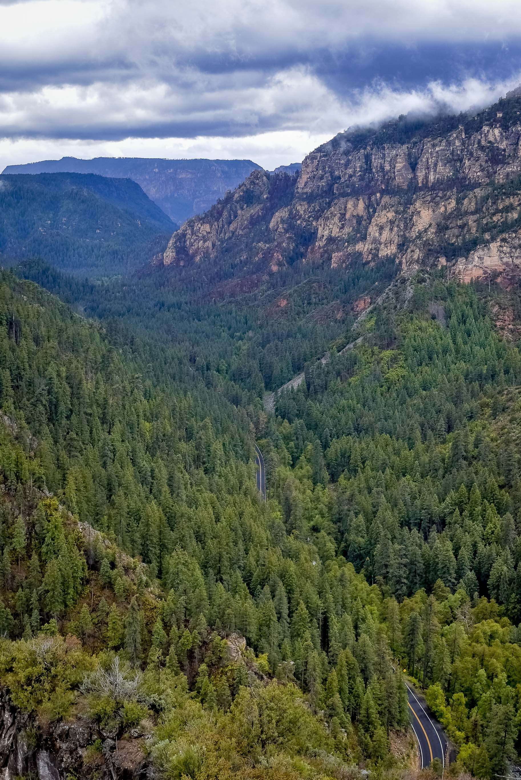 Oak Creek Canyon, Arizona, 2015, State Route 89A